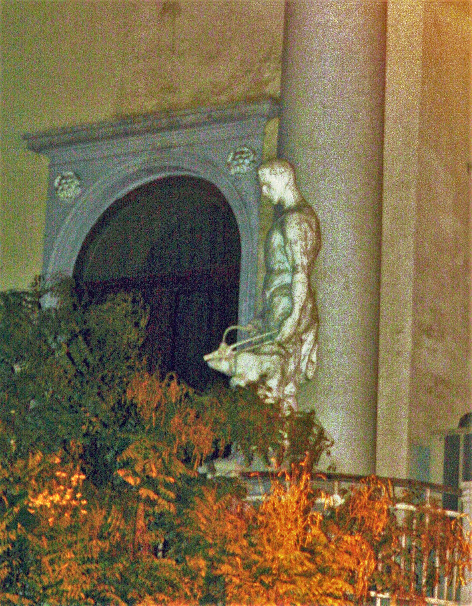 Sculpture on the House of miners in Baku